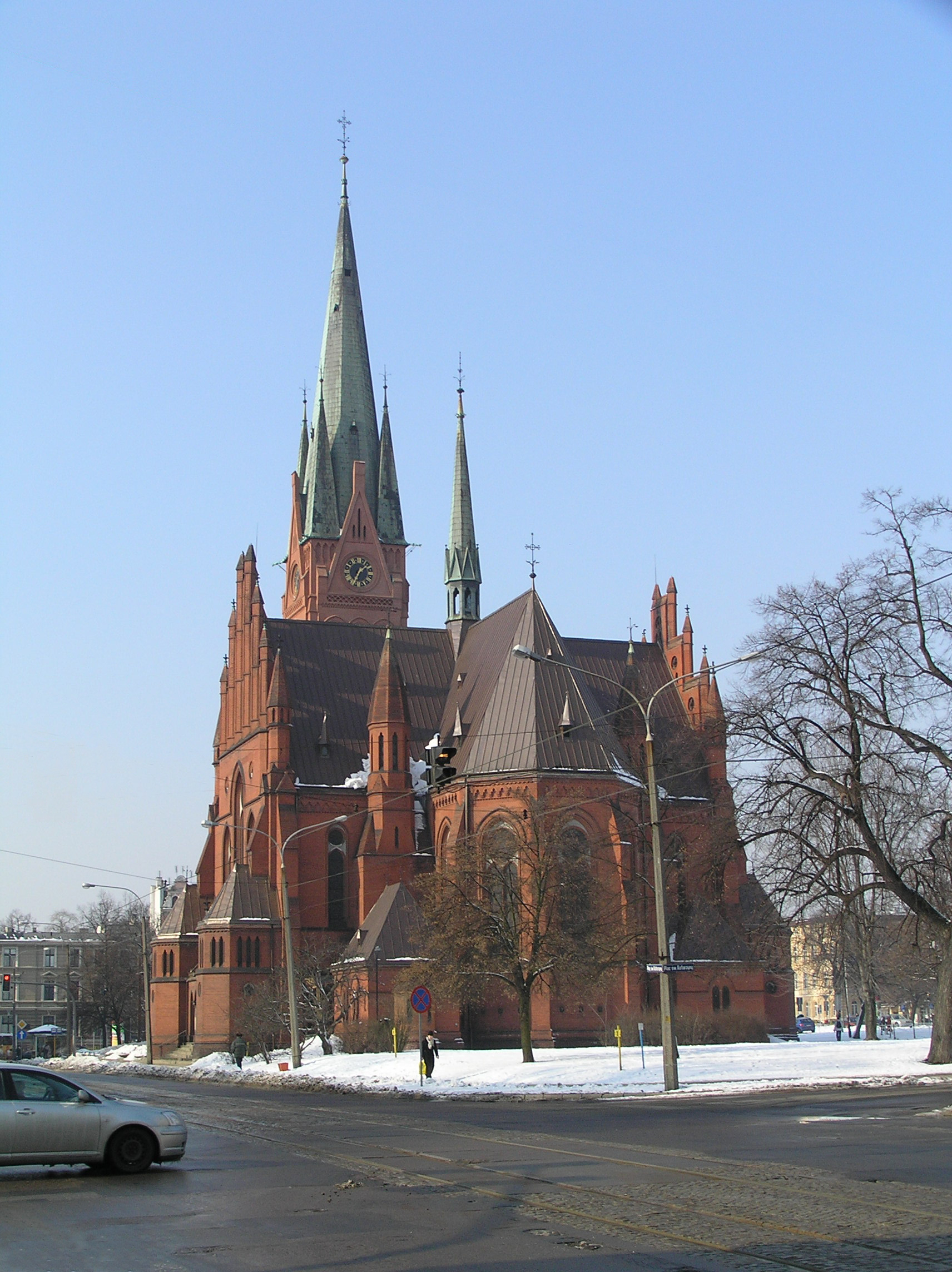 Toruń, St. Catherine Garrison Church, view from east.